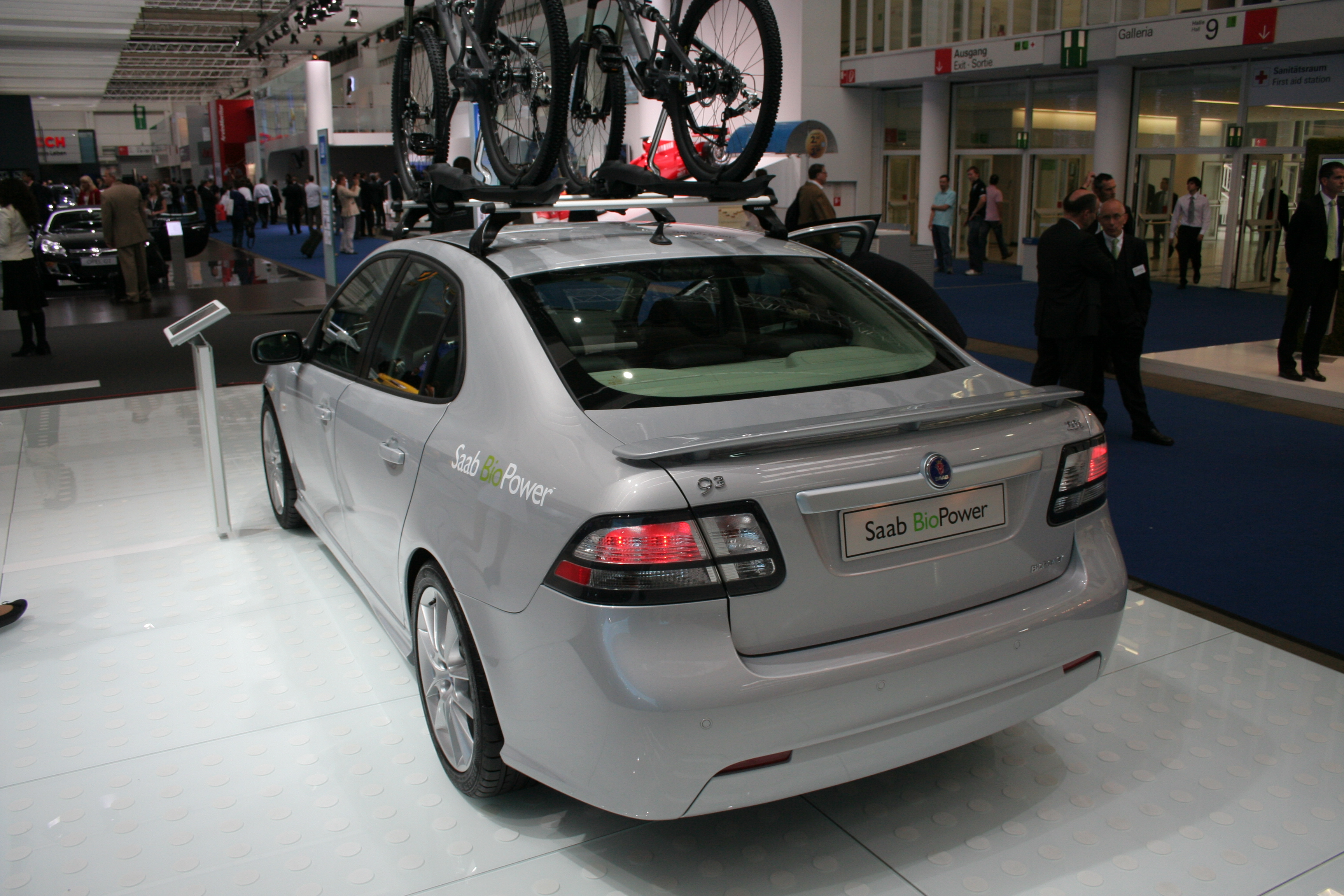 Image from IAA 2007 in Frankfurt am Main